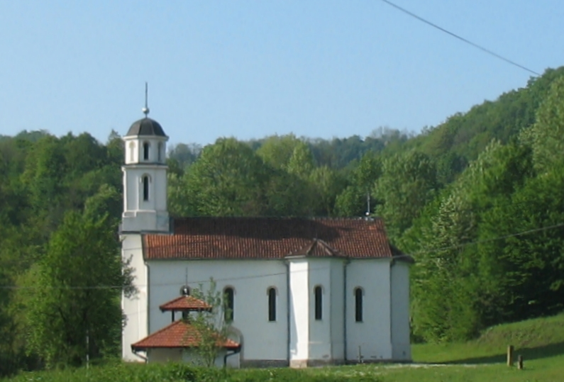 Church in Slavkovica near Ljig,Serbia.